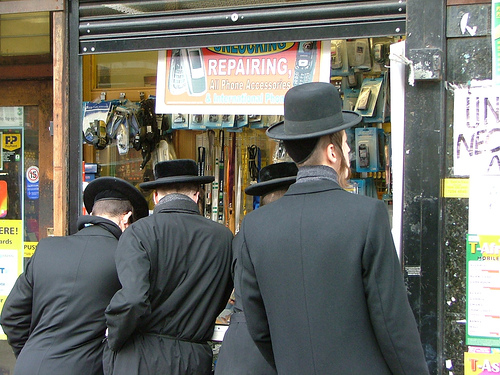 the Four Frummers from Uploaded on March 3, 2006 by dcaseyphoto on Flickr